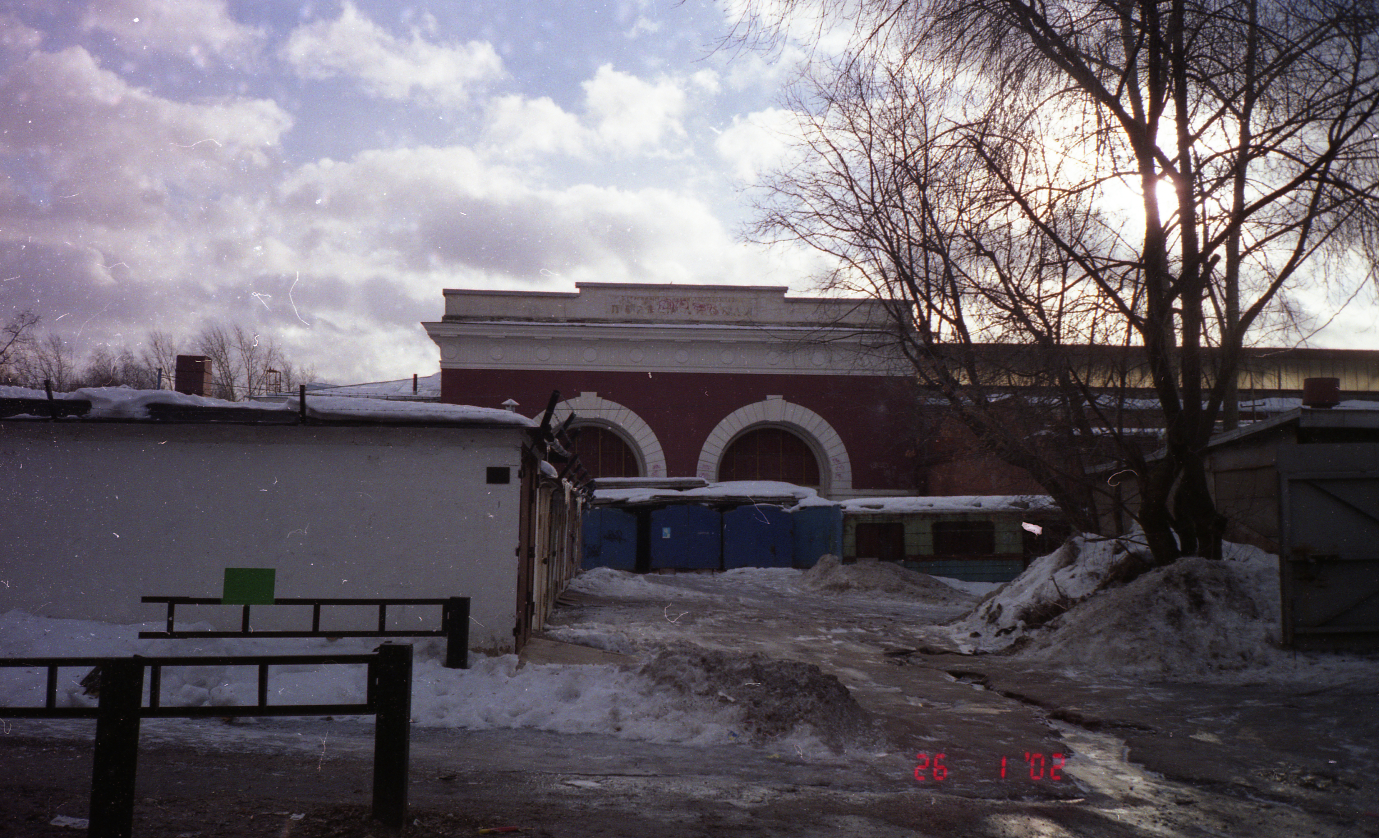 Entrance of temporary Moscow metro station Pervomaiskaya, located in train depot. Olympus mju-II camera, Konica 200